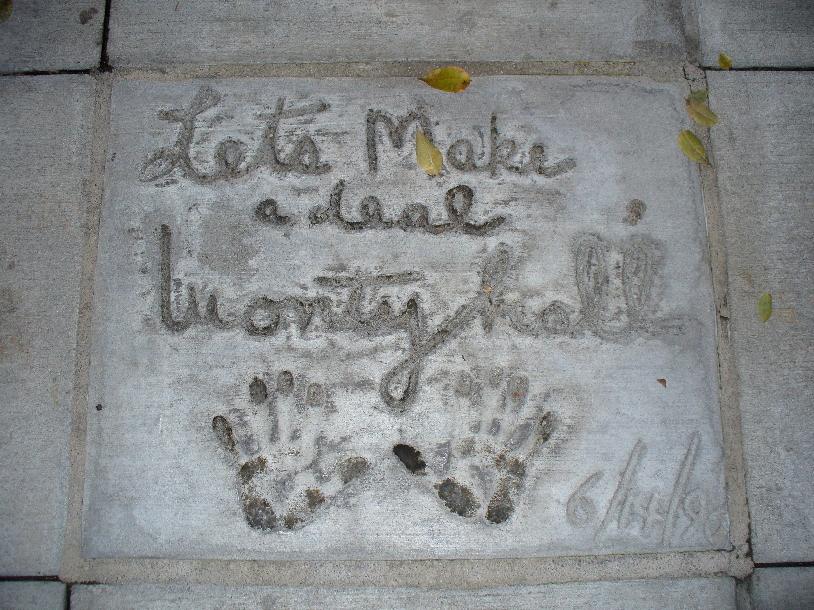 I am the originator of this photo. I hold the copyright. I release it to the public domain. This photo depicts the handprints of Monty Hall in front of Hollywood Hills Amphitheater at Walt Disney World's Disney's Hollywood Studios theme park.